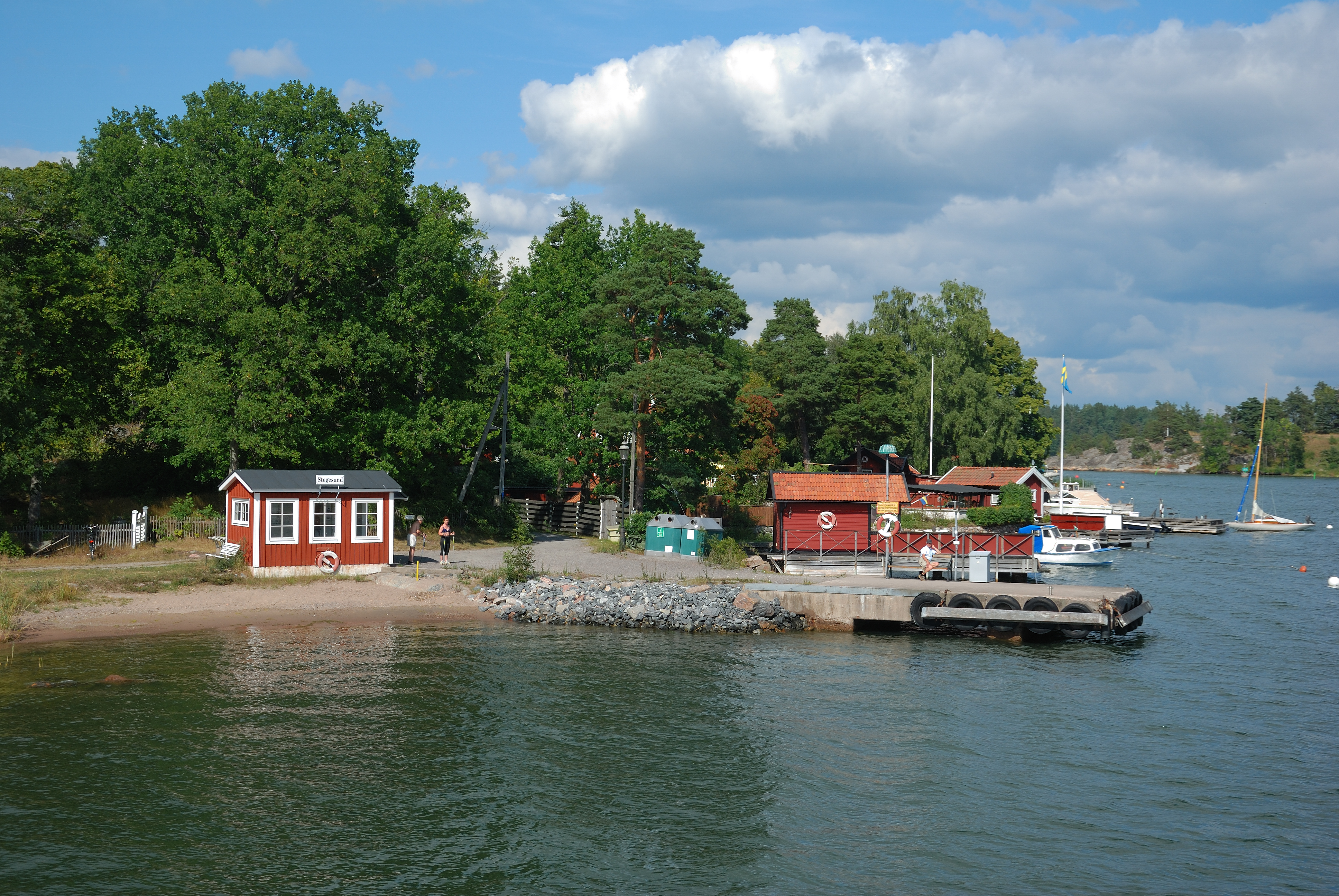 Stegesund.